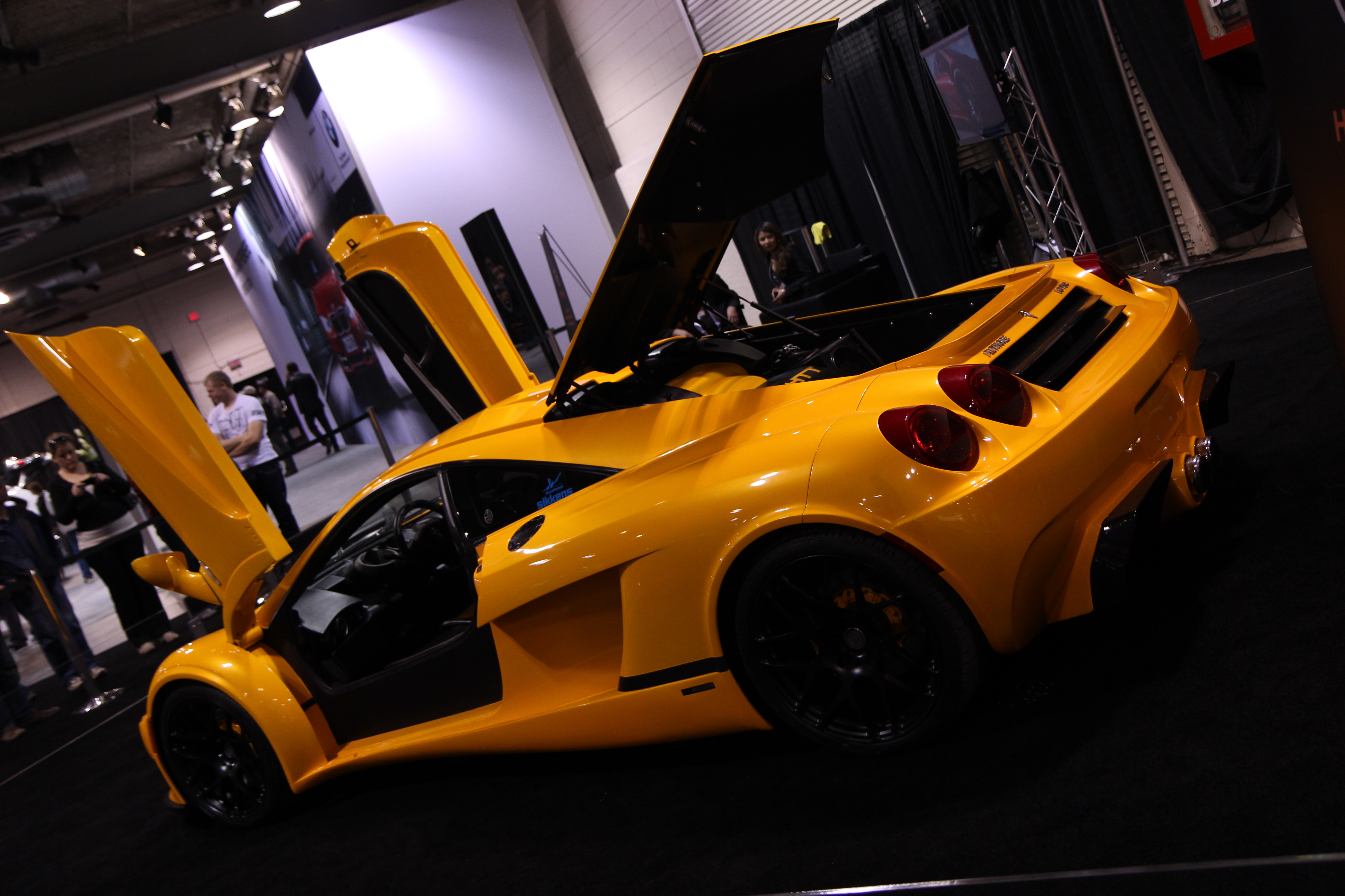 A static display of the HTT Pléthore with doors opened upward.